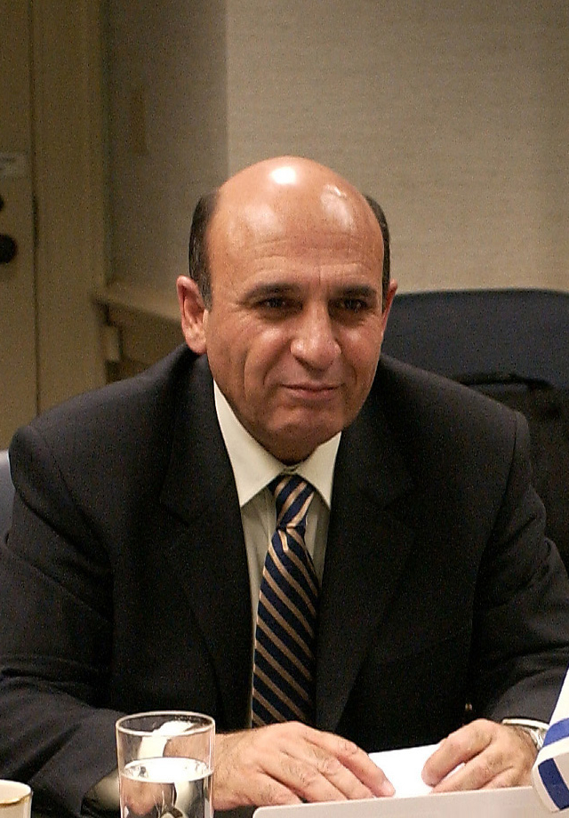 Israeli Minister of Defense Shaul Mofaz meets with then Secretary of Defense Donald H. Rumsfeld in The Pentagon on November 10, 2003. The two defense leaders are meeting to discuss national and international security concerns.